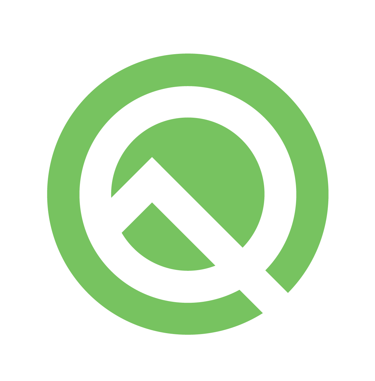 Logo of the Android Q operating system